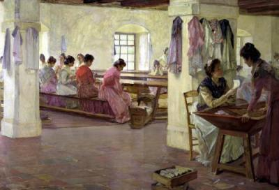 Cigar Makers at Seville, painted by Walter Gay